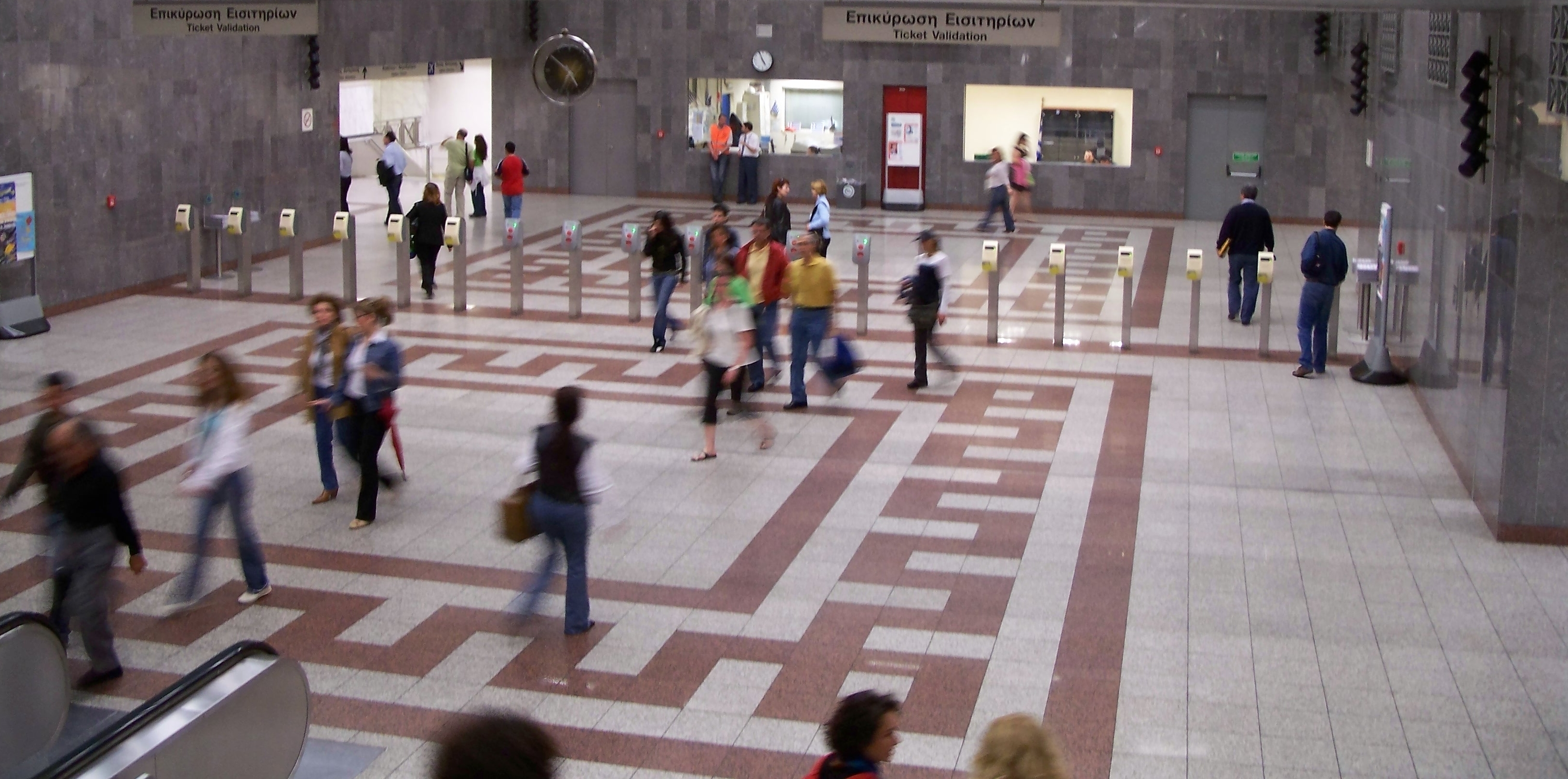 Internal view of Athens Metro Syntagma station.